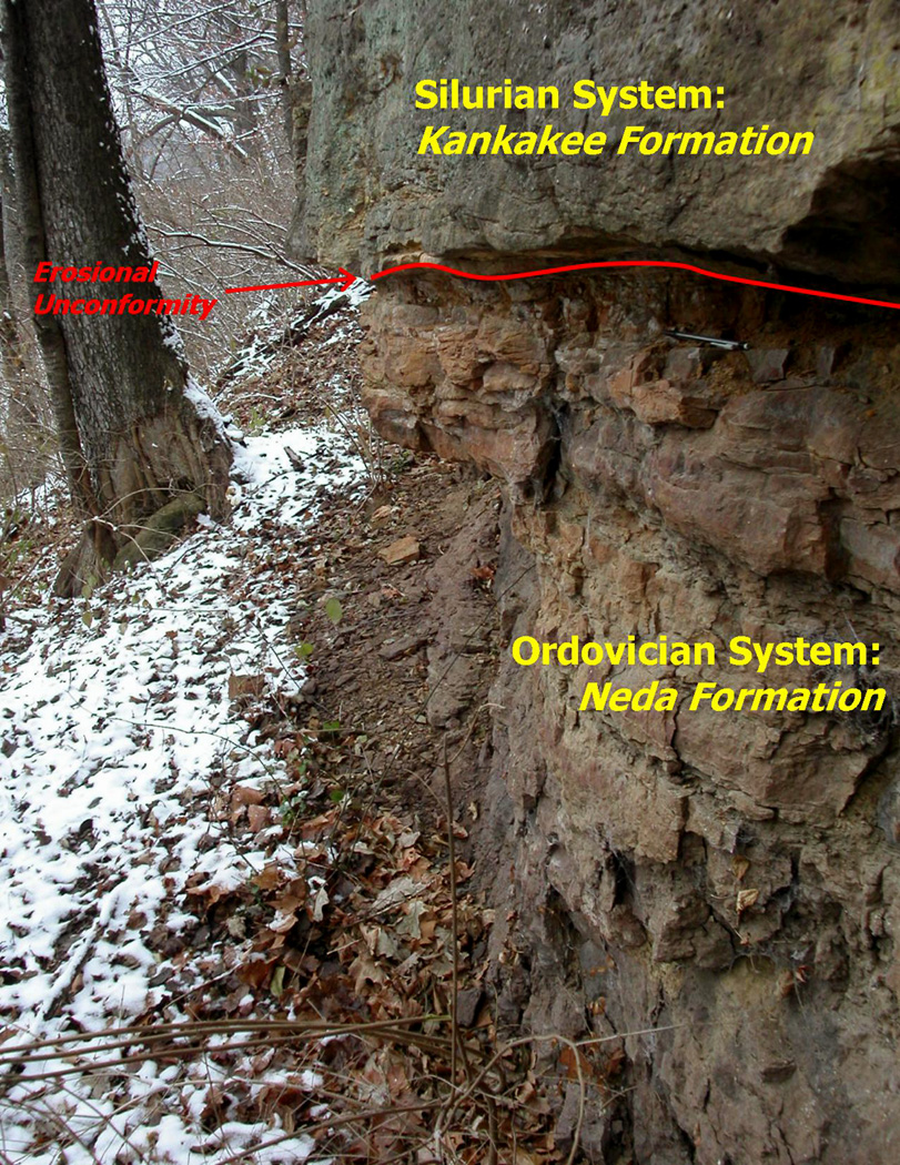 Maquoketa Group geological formation at Kankakee River State Park.